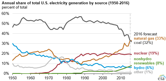 US electrical generation by source, 1949-2011